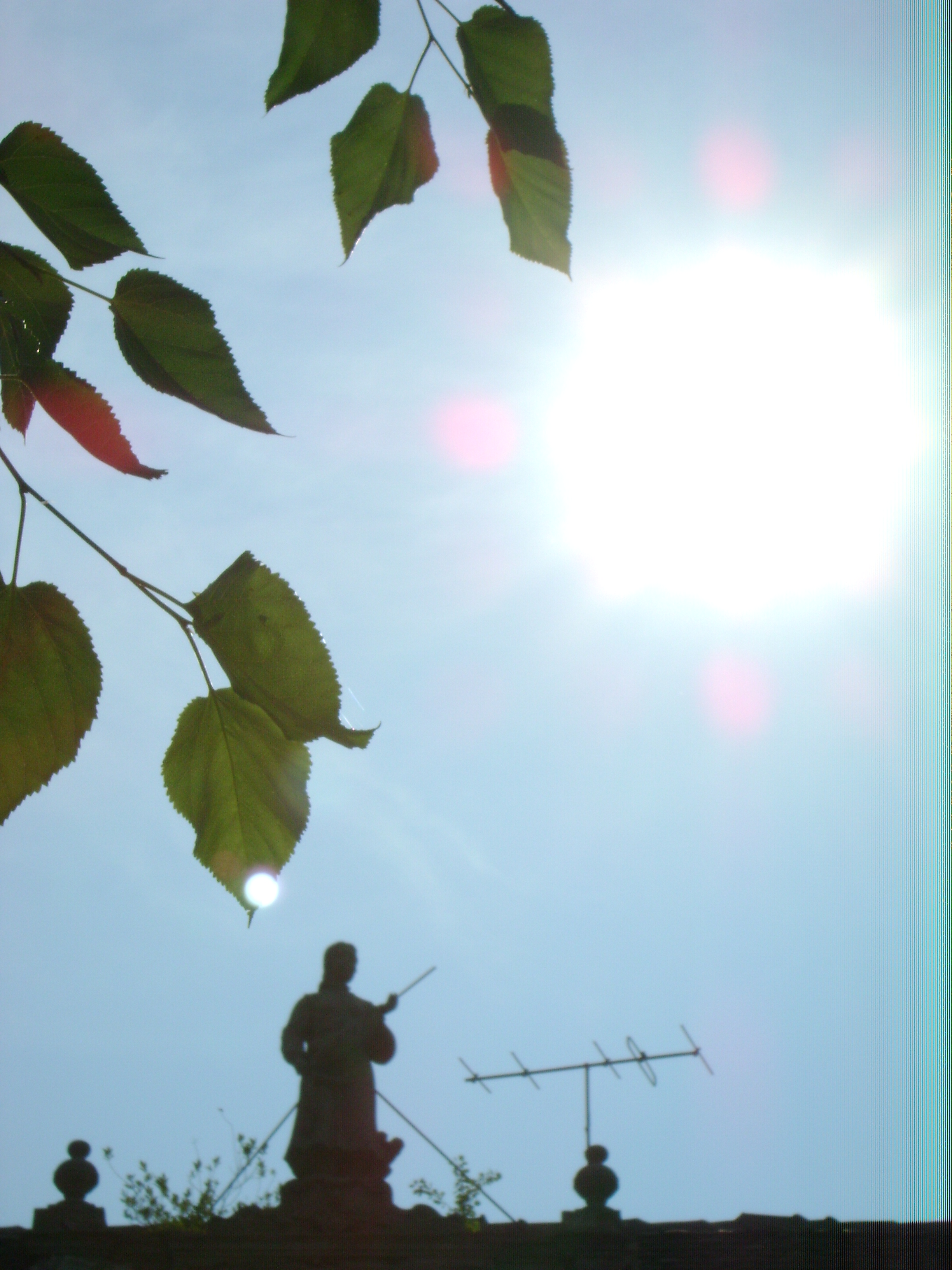 Zur Spinnerin is known as the Spinner of Life. In Roman mythology is known as Decuna, the spinner who spins the thread of life. She is the second of the three spinners: the first one is called Nona - the one who brings life, Decuna - the one who spins the thread of life and Morta - the one who spins the thread of death.